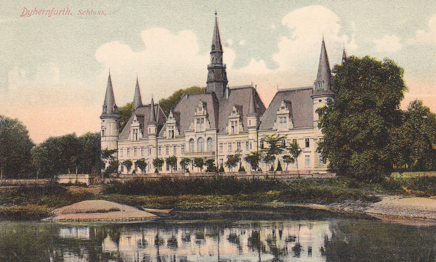 Palace in Brzeg Dolny